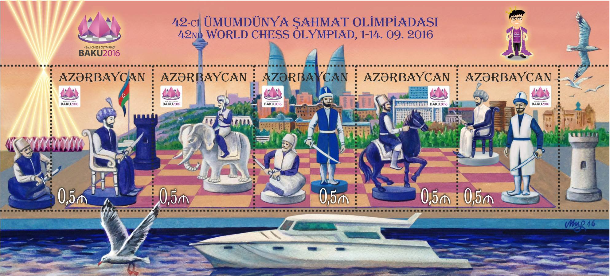 The 42th World Chess Olympiad. Baku 2016. N 1271 – 1275 - 50 qapik of each. There are pictured stylistic chessmen on a chessboard on stamps and the townscape of Baku from the seaside boulevard at a background. Also there are pictured the special logo and a talisman devoted to the Olympiad on the stamps. The stamps are devoted to the 42th World Chess Olympiad in Baku from September 1 to September 14, 2016.